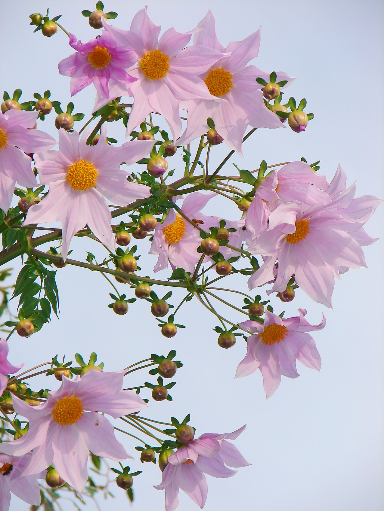 Giant tree dahlias in flower 'Beautiful Giants' On Black